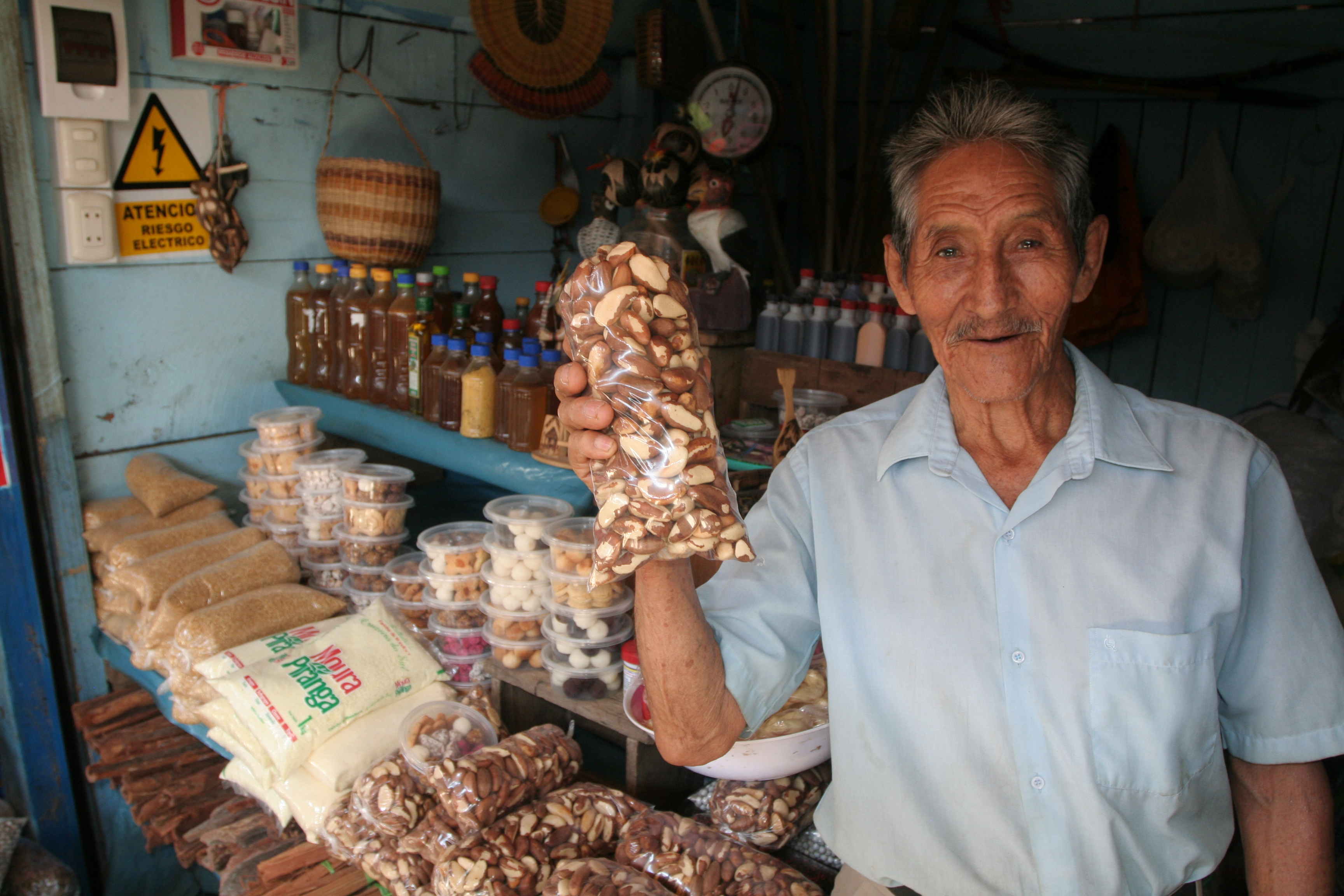 Brazil Nut salesman. Puerto Maldonado, Peru. Photo by Steve Kessler.